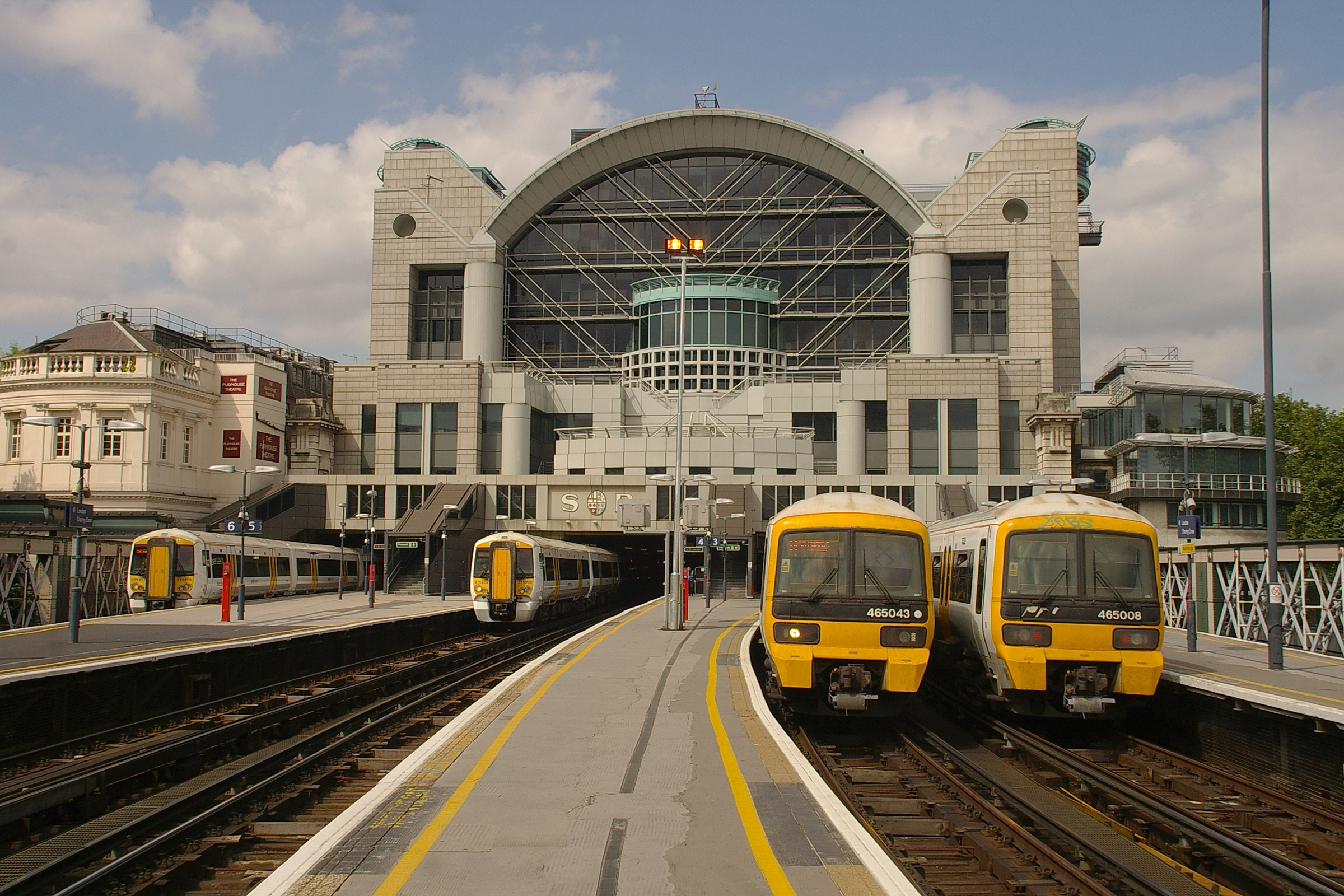 Southeastern units 375813, 375808, 465043 and 465008 at London Charing Cross railway station.